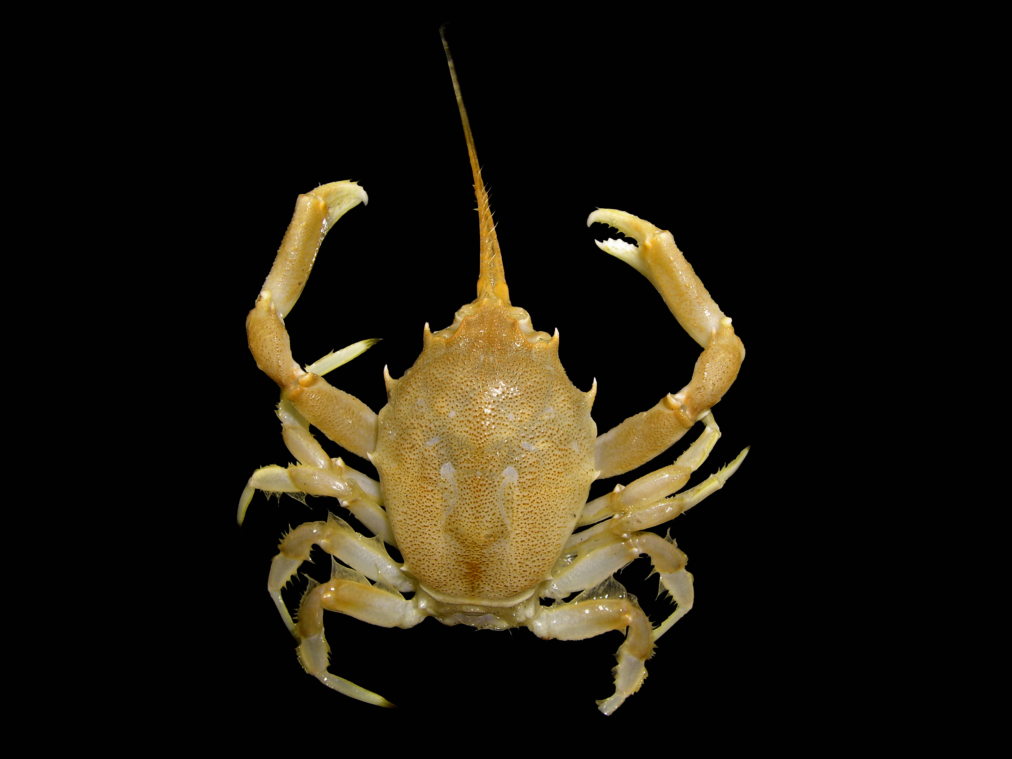 Male Masked crab from the Belgian Coastal waters. Carapace width: ~23 mm Geo-location not applicable as the picture was taken in the lab.